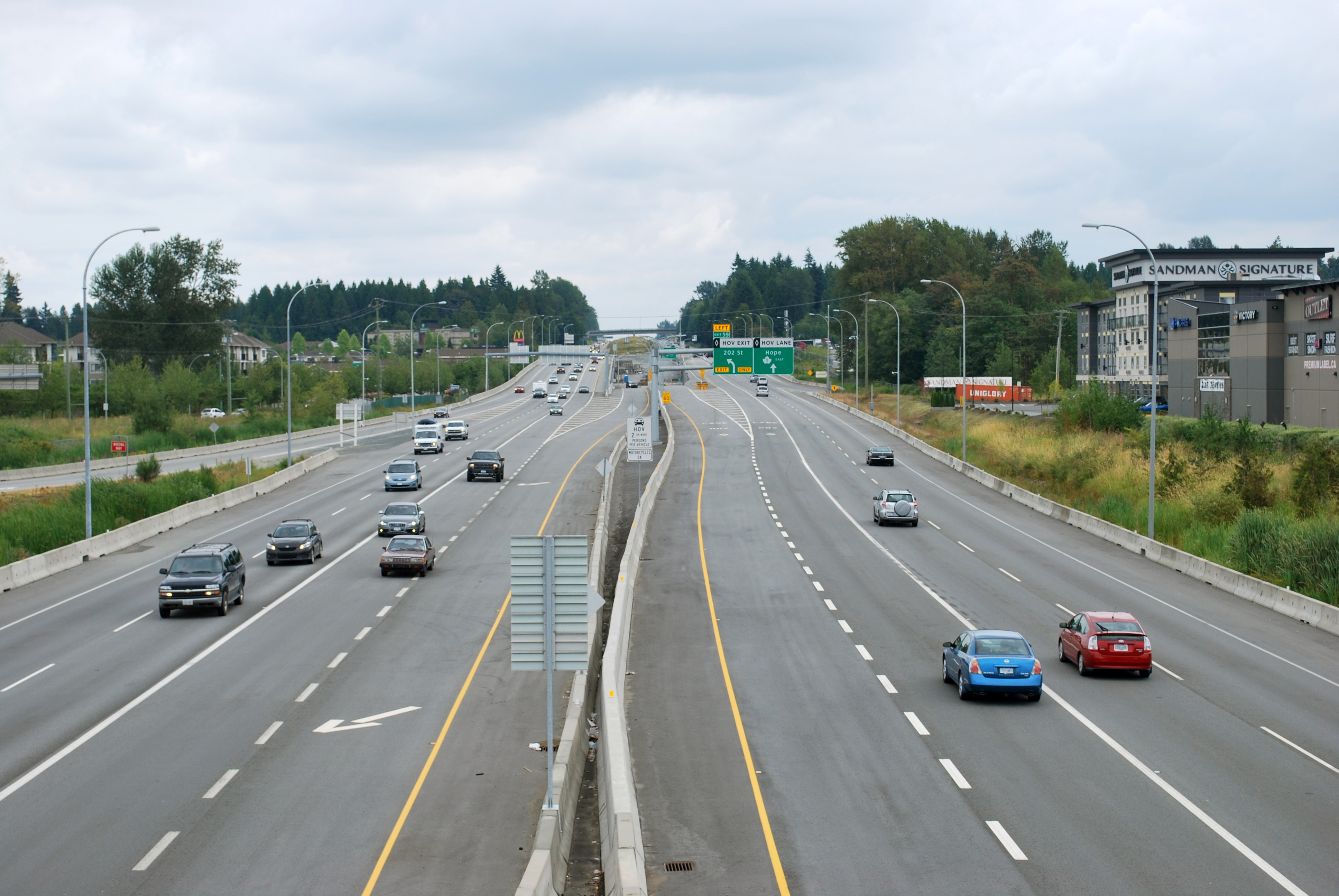 Trans-Canada Highway - Taken from 200th St Bridge - Facing east showing HOV exit onto 202nd St